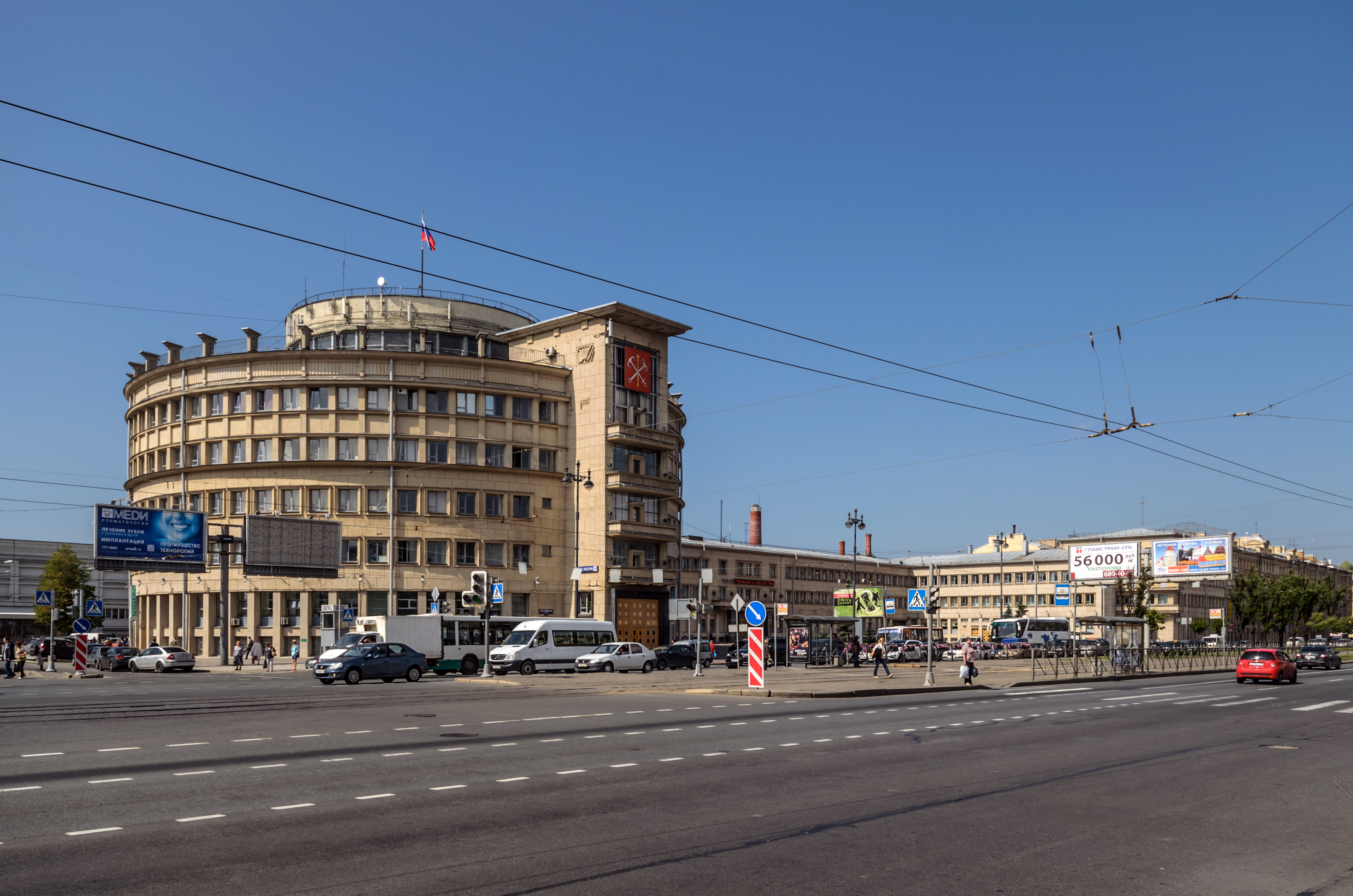 Moskovsky District Council in Saint Petersburg